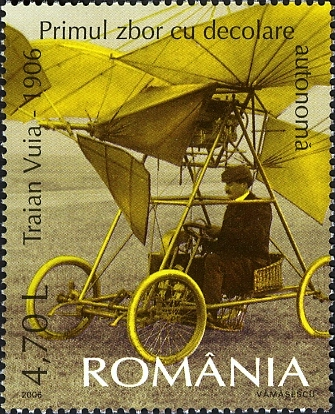 Stamps of Romania, 2006